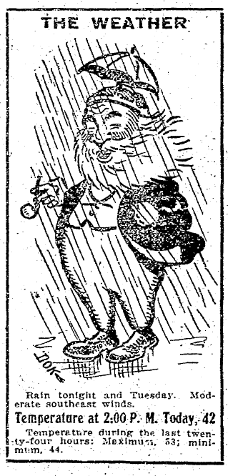 The first Umbrella Man cartoon, to illustrate the weather, November 1, 1909 by John "Doc" Hager. This was Hager's first daily cartoon. The Umbrella Man was based on Robert W. Patten, a Seattle eccentric.